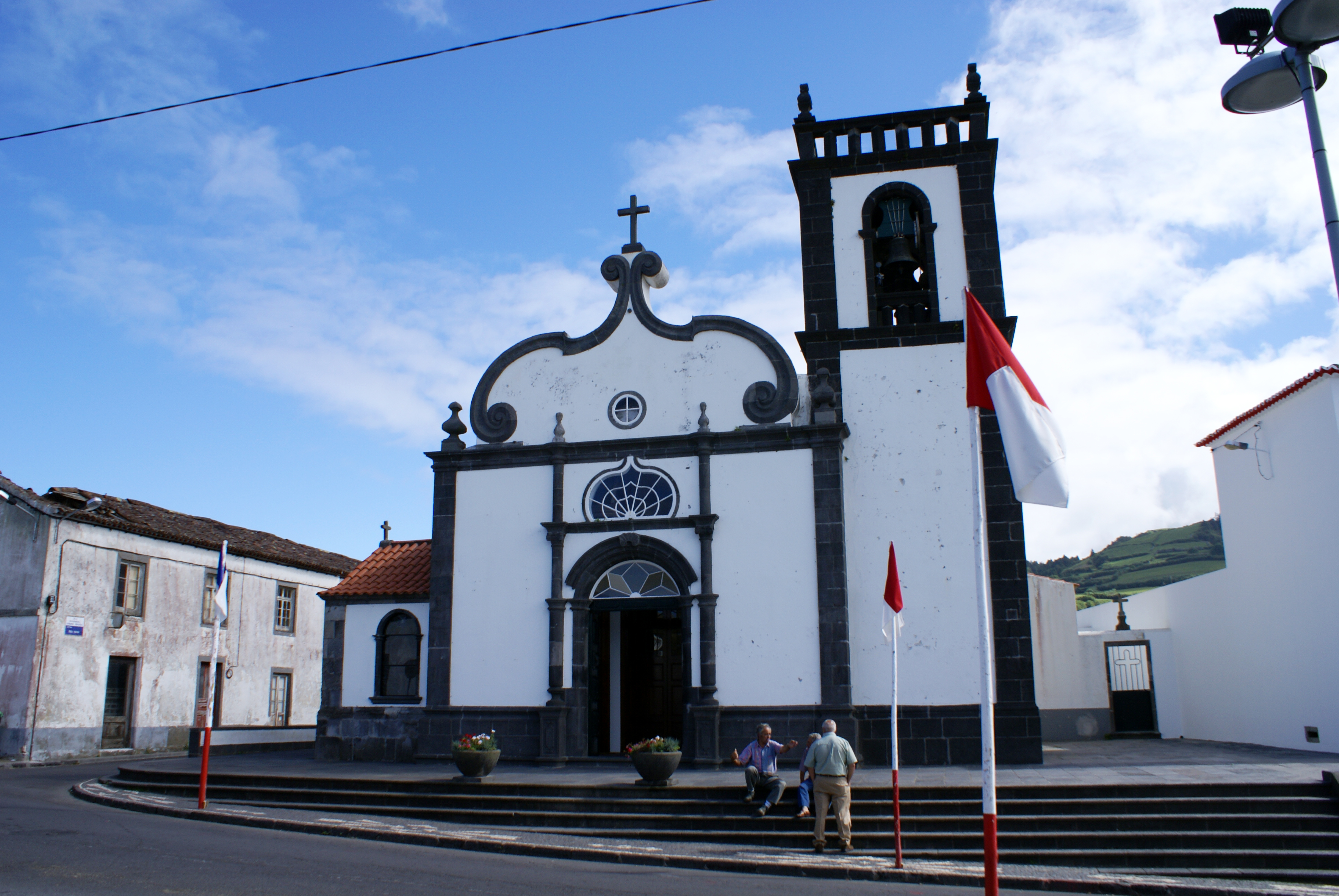 Façade of the Church of São Sebastião, Ginetes, Ponta Delgada, São Miguel (Azores), Portugal